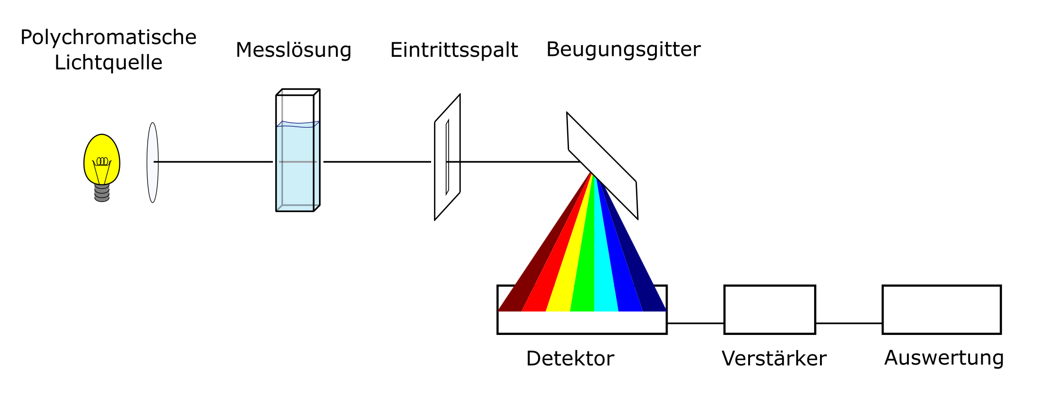 Working principle of a diode array spectrometer